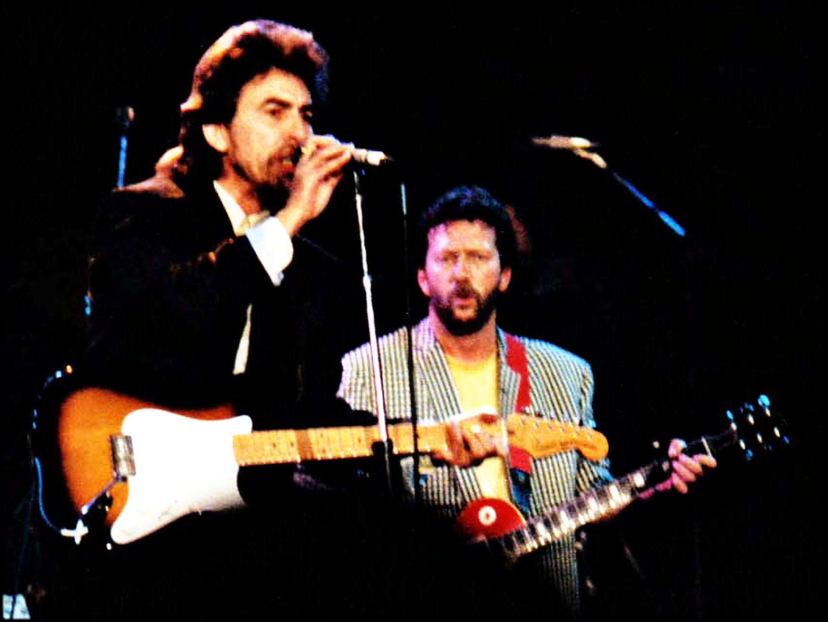 George Harrison and Eric Clapton performing at the Prince's Trust Concert.